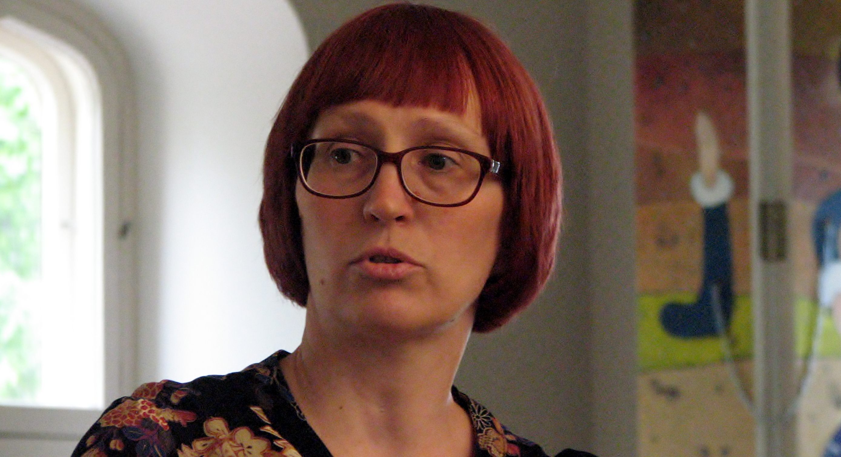 Kätlin Kaldmaa performing in Estonian Children's Literature Centre during festival HeadRead